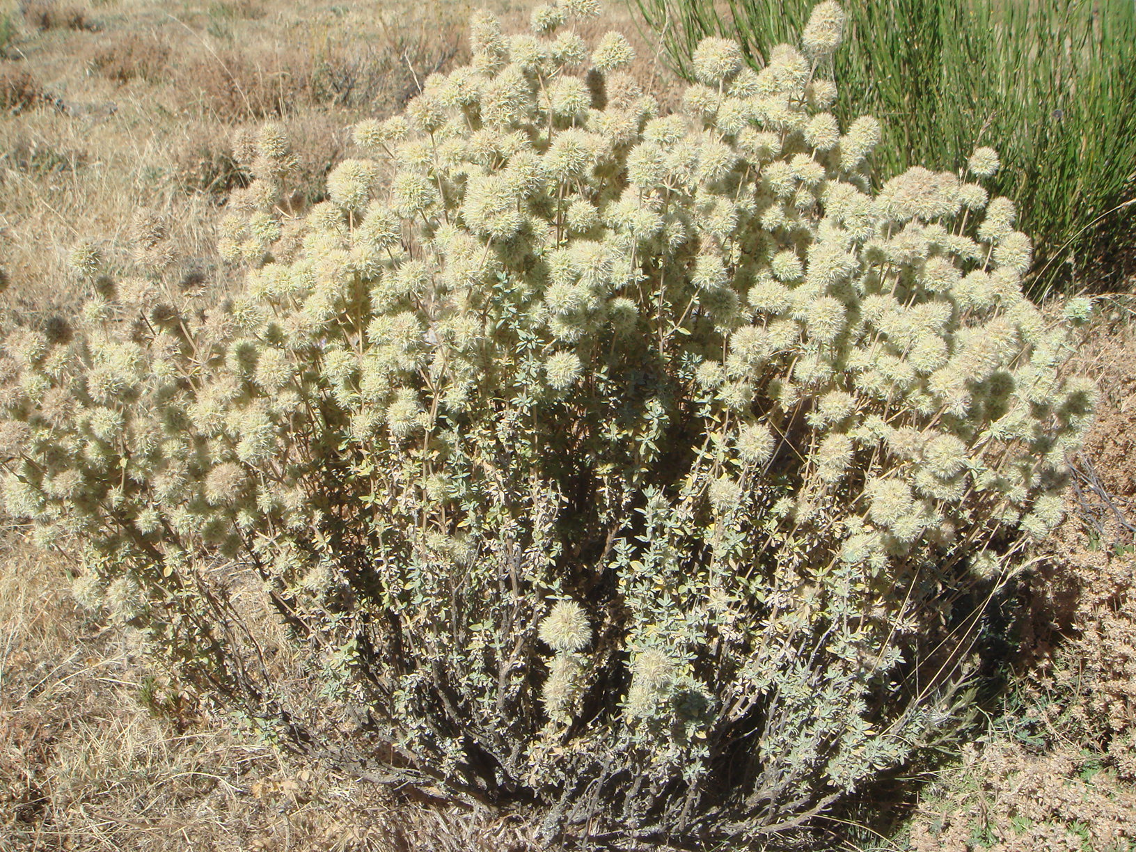 Sierra de Ávila, Spain, Ávila province.